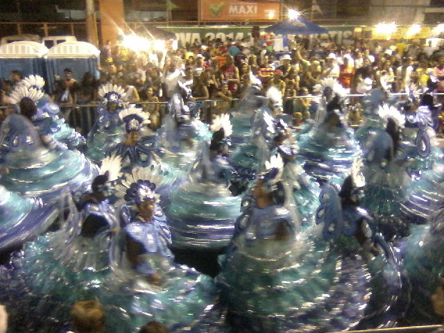 GRES Unidos da Vila Kennedy